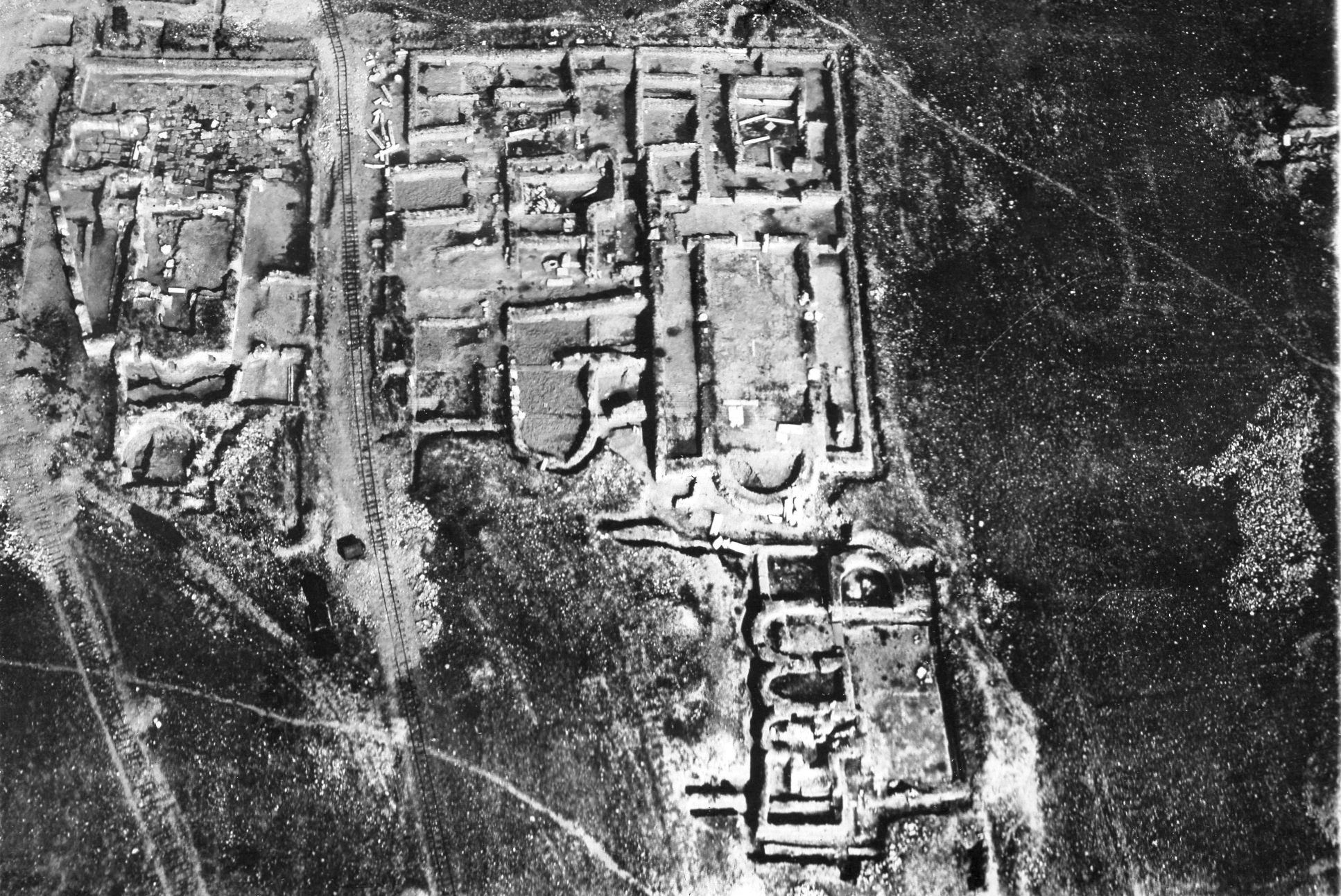 Stobi from the air, 1930's This media file is produced by Wikipedian in Residence in Category:Wikipedian in Residence at DARM in 2016.